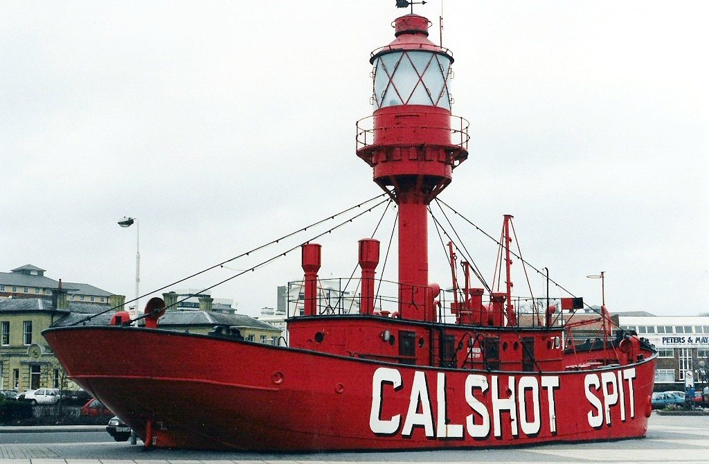 Calshot Spit Lightship Photo by Paul Dashwood 1997